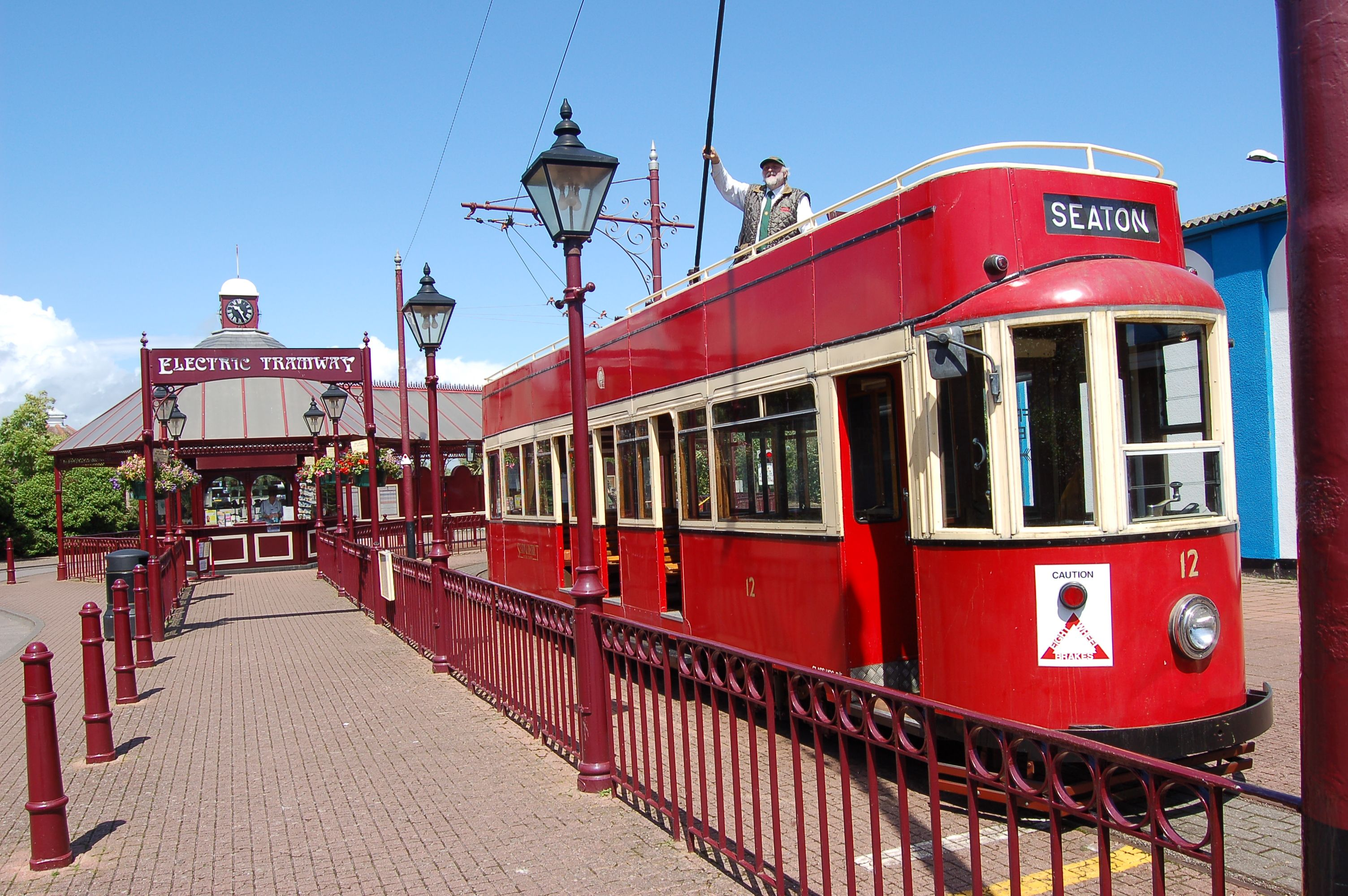 Seaton electric Tramway travells the 4.8 kilometer distance between Seaton and Colyton in Devon UK